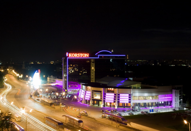 Korston Hotel&Mall Kazan 2